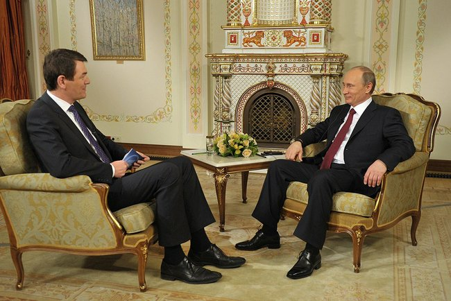 Ahead of the working visit to Germany, Vladimir Putin gave an interview to the German ARD. The interview was recorded on April 2, 2013 in Novo-Ogaryovo.